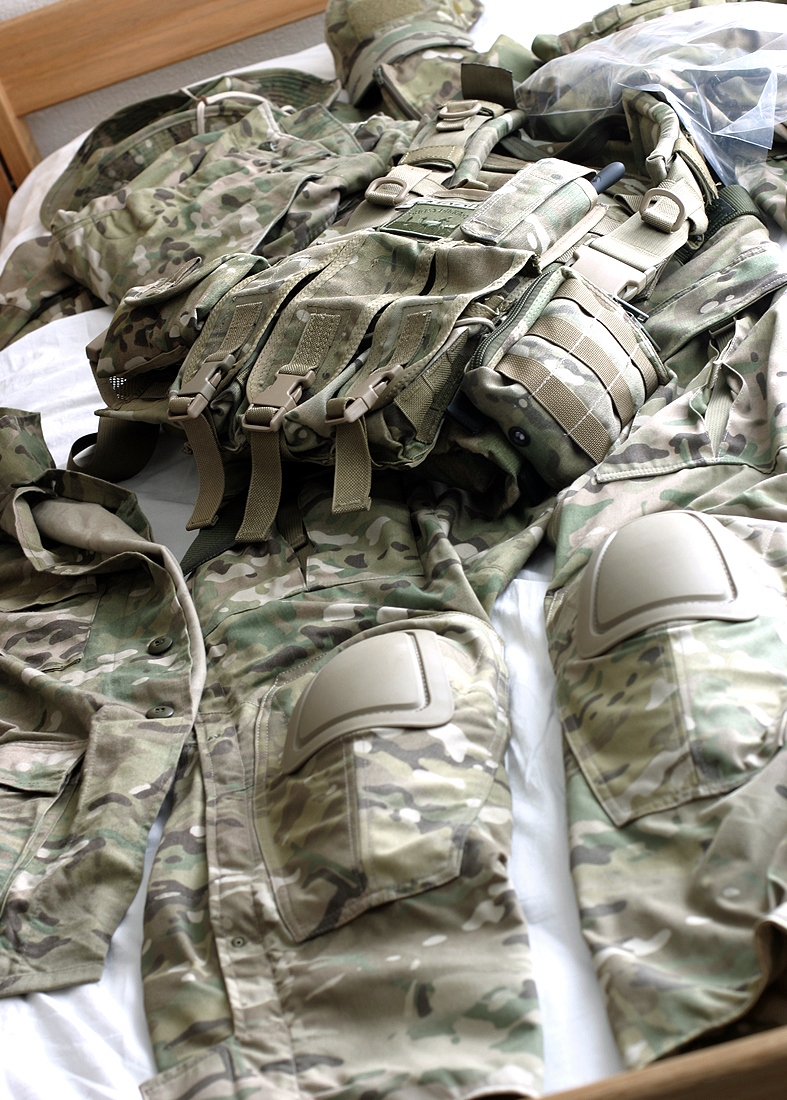 Multicam BDU: Crye Precision Combat set, HSGI Woosatch E, HSGI universal mag pouches, PackRat, ICE tactical large foldup, and HSGI Hydration carrier.